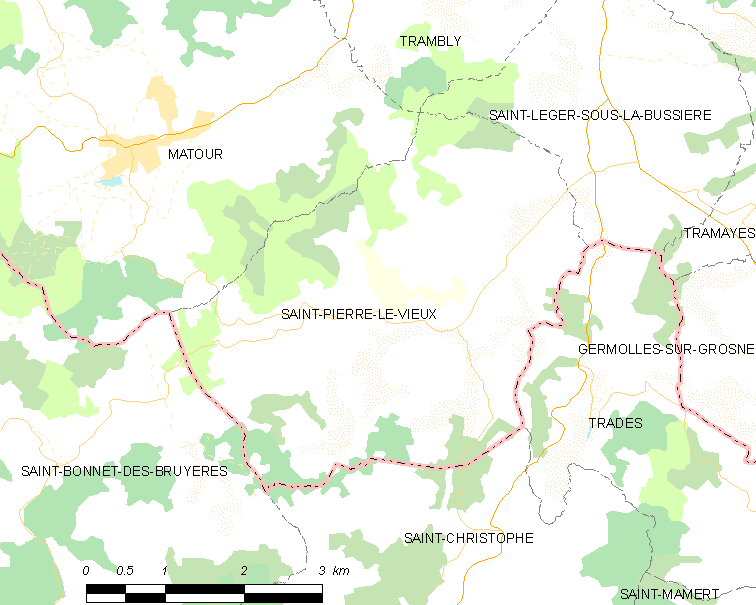 Map of French municipality